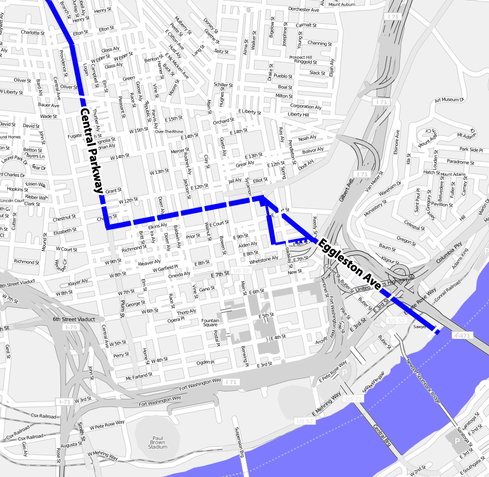 A map showing the former location of the Miami and Erie Canal in downtown Cincinnati. The canal followed modern day Central Parkway until it reached the intersection of Eggleston Ave, at which point it followed Eggleston Ave and cut through Sawyer point and ended in the Ohio River. 1838 bridges at Liberty, 12th, Elm, Race, Vine, Walnut, Main, Sycamore, Court, Broadway, 3rd, and East Front (which no longer exist and is now a part of Sawyer Point) Streets are shown on the map. This map was derived from a free map. The location of the bridges and canal was determined from Image:Cincinnati-map-1838.jpg. The triangular section of the canal allowed boats to more easily turn around.